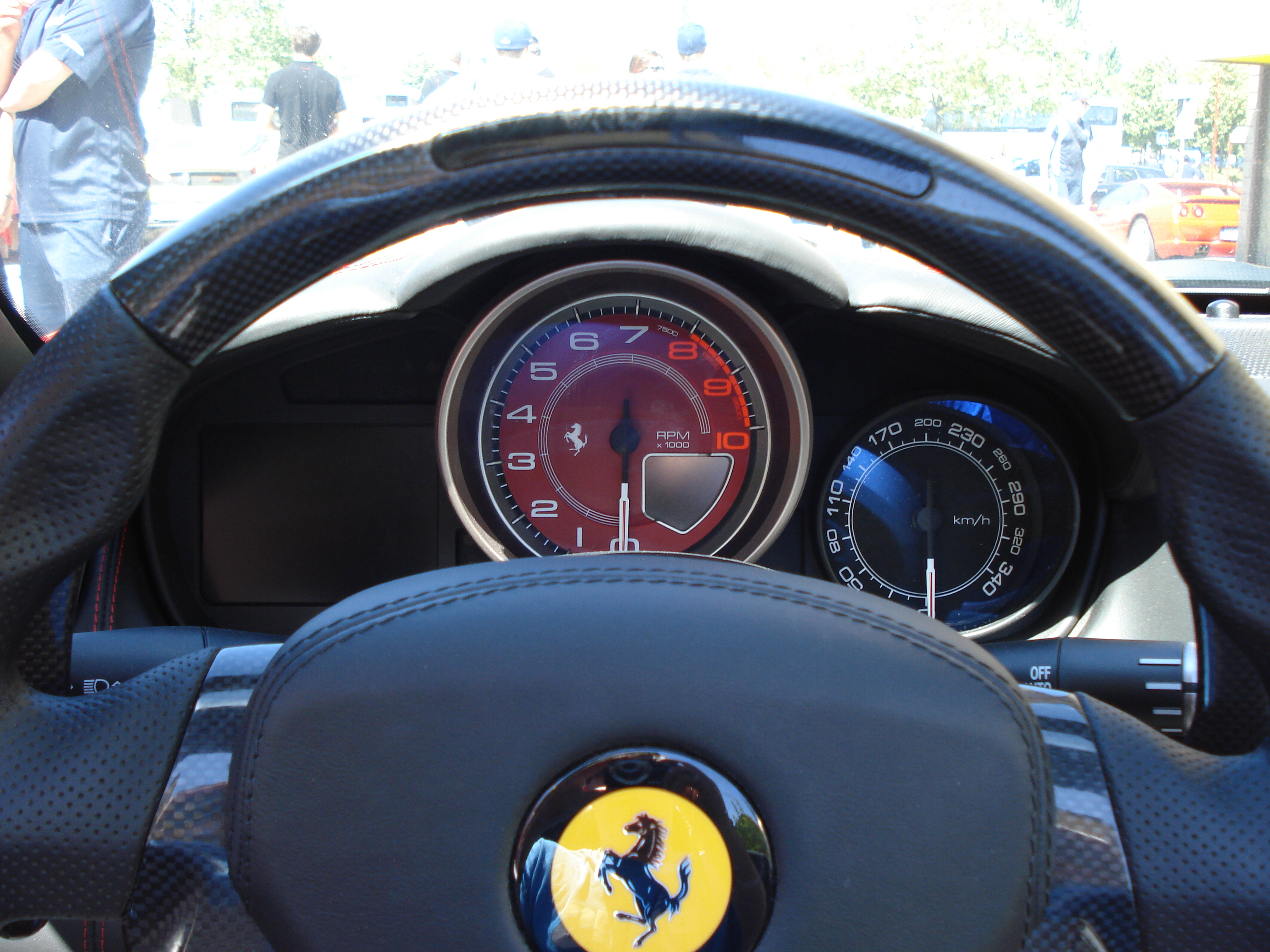 Close-up shot of the steering wheel and the rev counter of a Ferrari California.